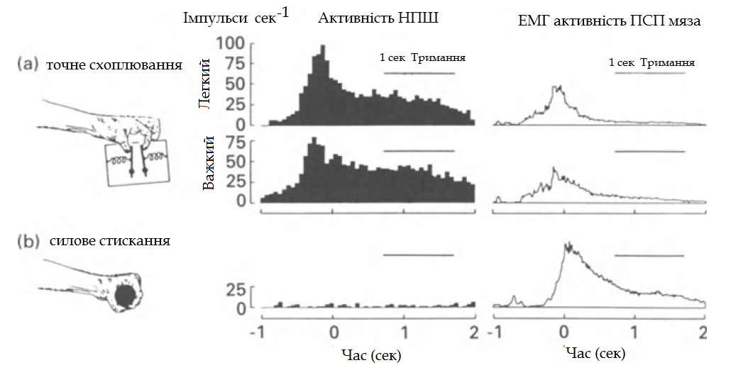 Activity of a monkey PTN during precision and power grip, (a): Response averages for a PTN and for the muscle (1DI) in which it produced a PSF, showing activity before and during a precision grip task. Histograms of PTN discharges for 16 repetitions of the task with either light (above) or heavy force were constructed in relation to the earliest detectable lever movement (time zero). The gross EMG recorded at the same time with percutaneous wire electrodes was rectified and averaged (shown at right), (b): Corresponding task-related analysis for the same PTN and muscle during the power grip. Time zero represents the earliest detectable pressure increase in the rubber cylinder. This cell was almost completely deactivated during the power grip, despite the fact that its target muscle showed increased activity during this task.